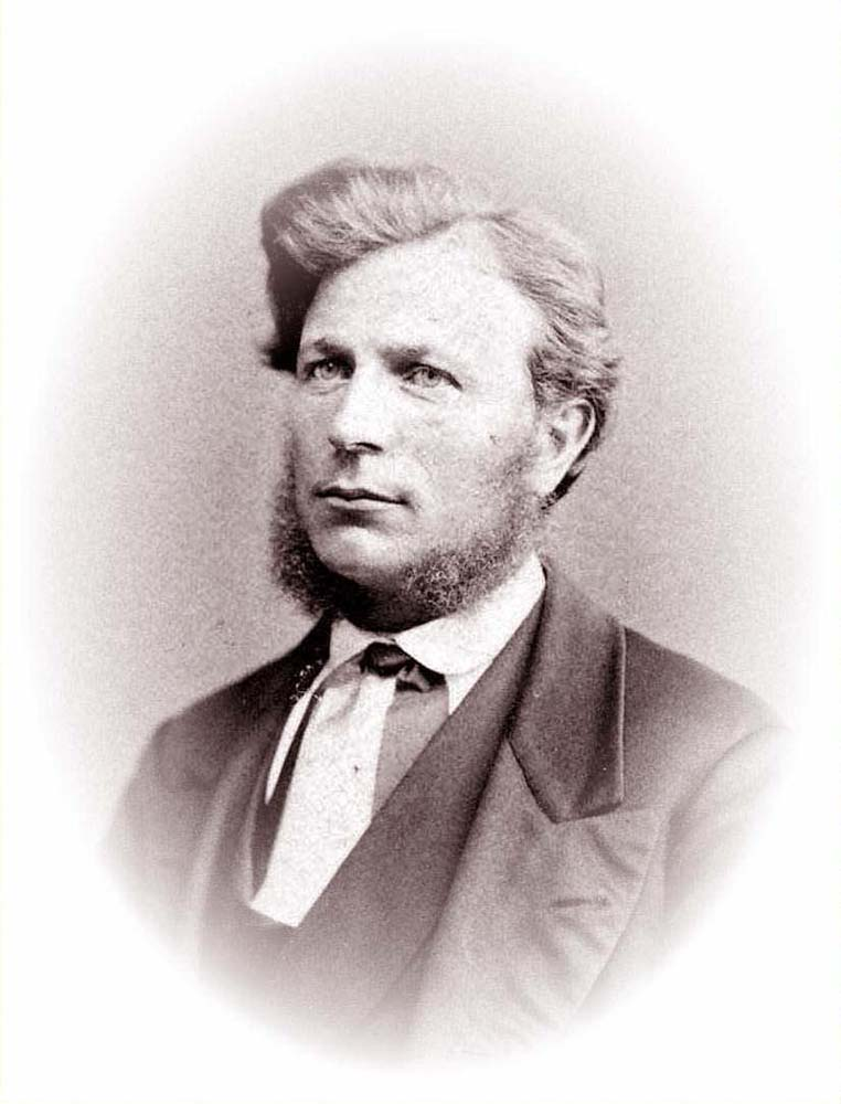 John Truedsson Ridderstedt (1844-1905), as released by image owner FamSACPlace: Probably Karlstad, Sweden